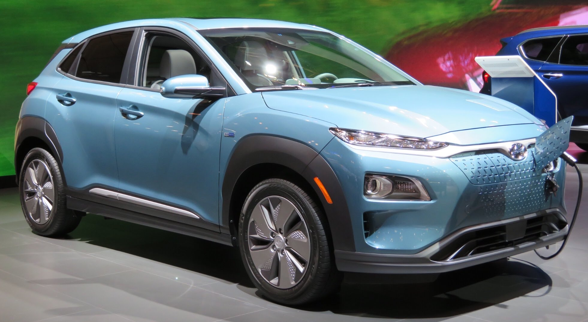 In New York International Auto Show, at Manhattan, New York, USA